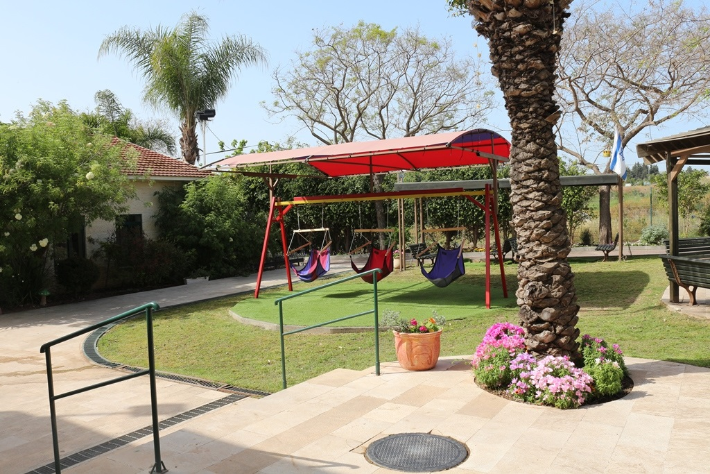 תמונת רחבת קהילה צעירה בית אקשטיין בנימינה